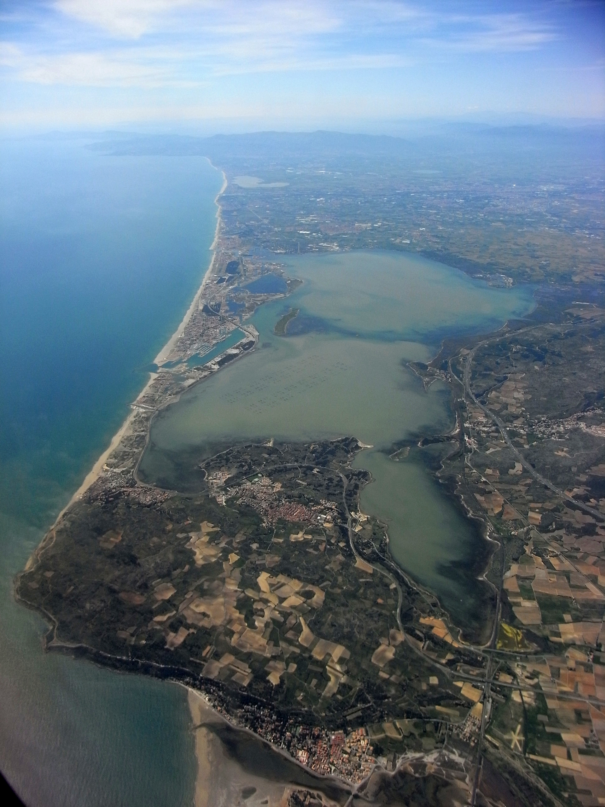 coast lake north of perpignan